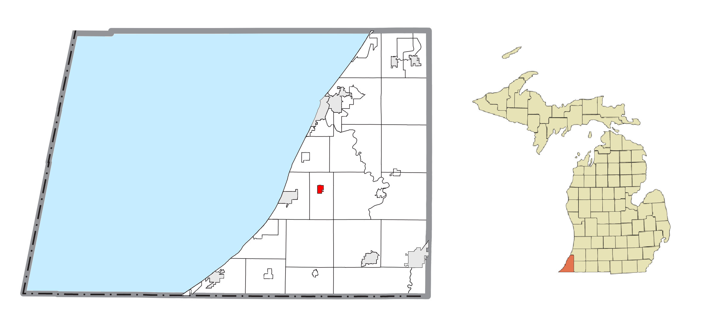 Baroda, MI